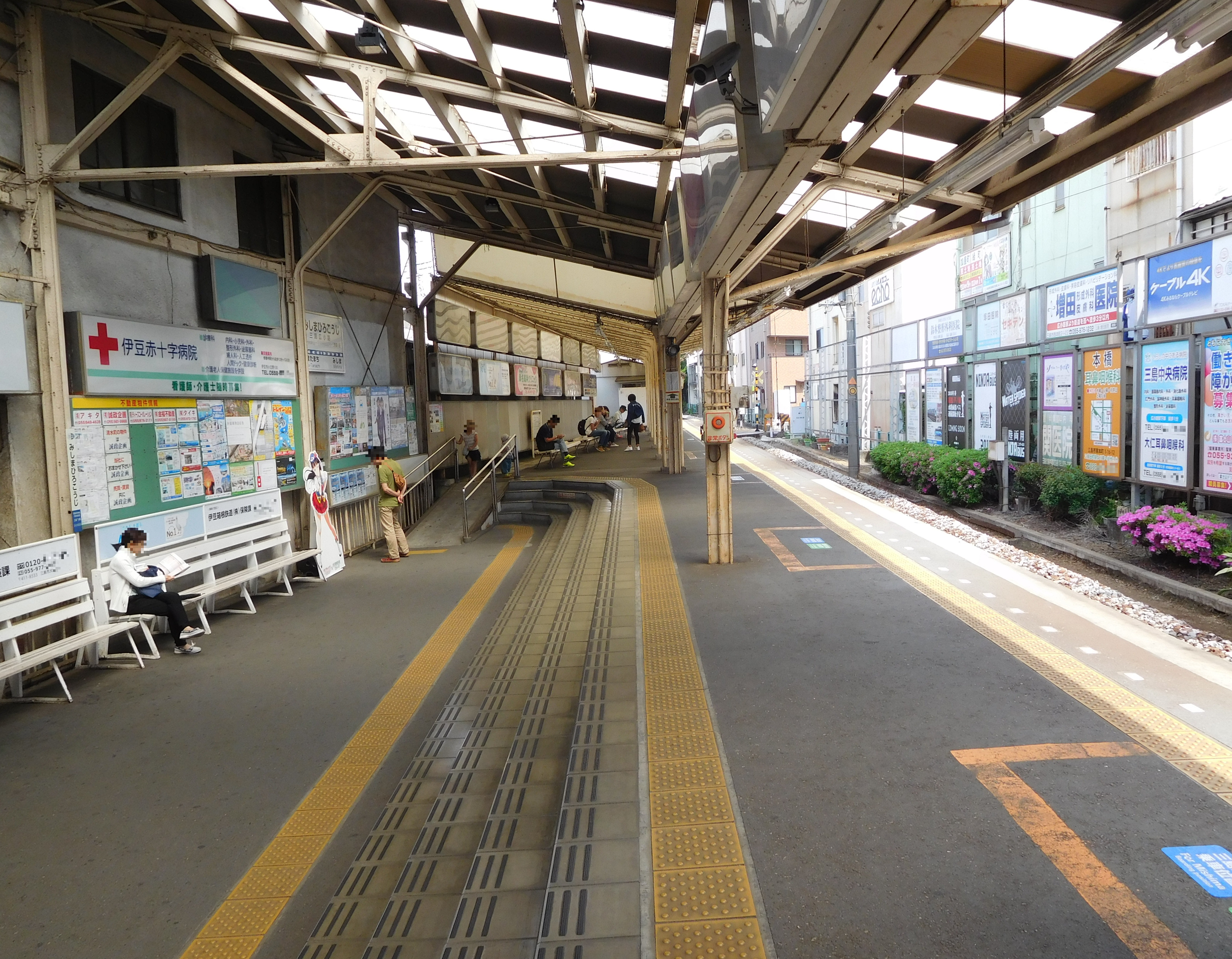 This is platform of Mishima-Hirokoji station in Mishima, Shizuoka, Japan.